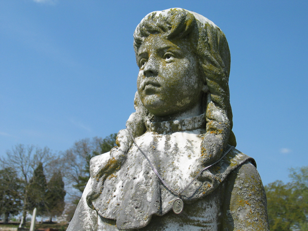 Statue/Grave Marker of Martha Ellis, Rosehill Cemetery, Macon, Georgia, United States